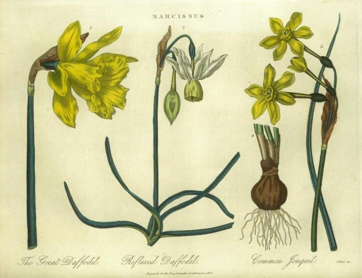 N. major, N triandrus, N jonquilla, engraving made for Encylopaedia Londinensis vol 16 1819